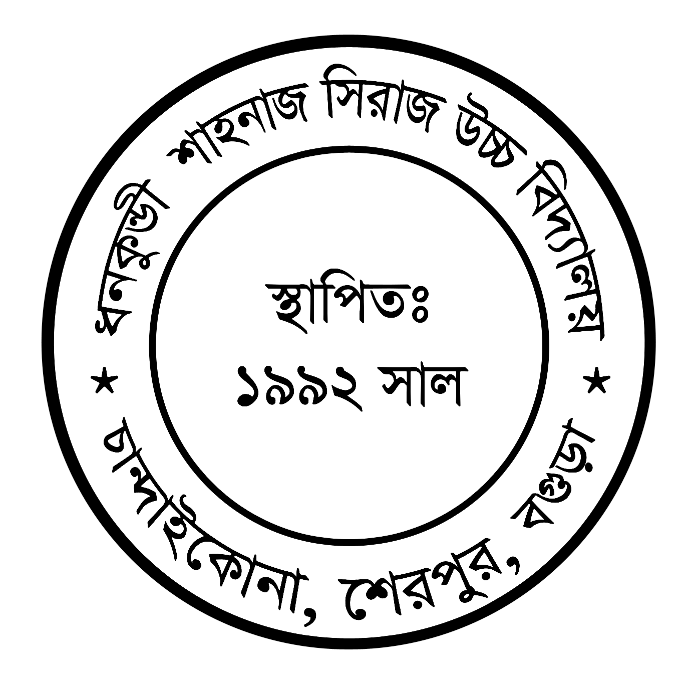 Its a Seal of Dhankundi Shahnaj Siraj High School